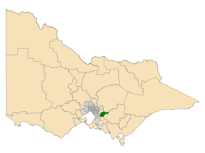 Location of the Electoral District of Gembrook (dark green) in the state of Victoria, Australia. These boundaries were used for the Victorian state election on 29 November 2014.